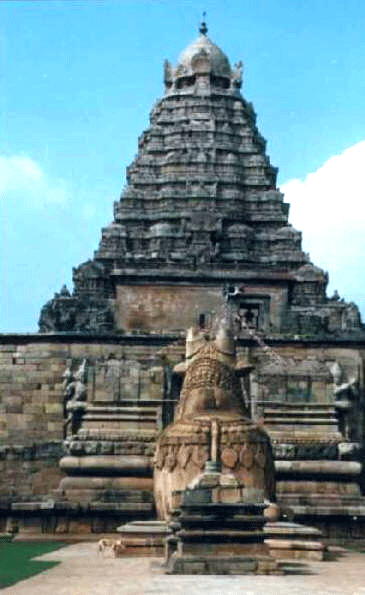 The mail vimana of the Gangaikondacholapuram. Rajendra Chola c. 1030 C.E. From my collection of photographs